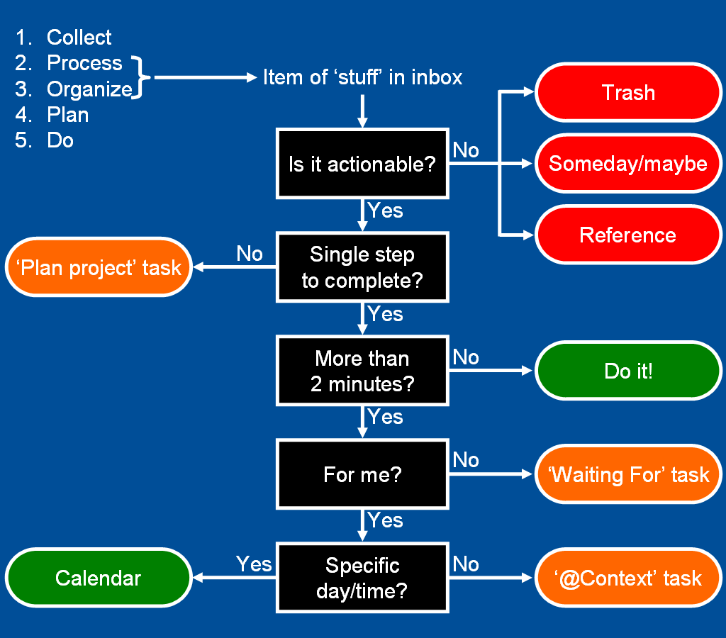 Logic tree diagram illustrating Getting Things Done workflow. Five steps are collect, process, organize, plan, and do. Alternate names are capture, clarify, organize, reflect, and engage. The image was developed for and is suitable as inspirational computer desktop wallpaper